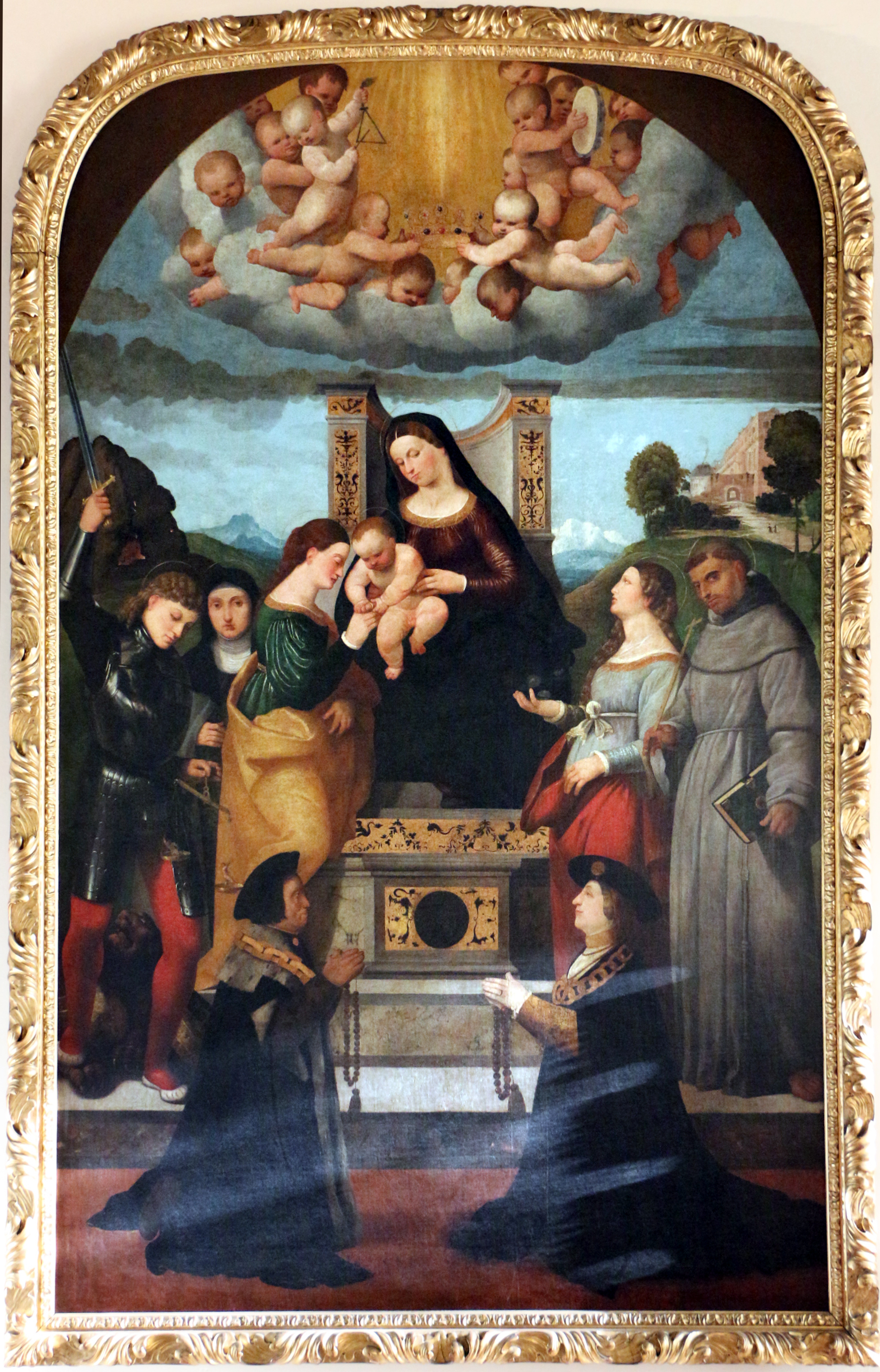 Paintings in the Buonconsiglio Castle